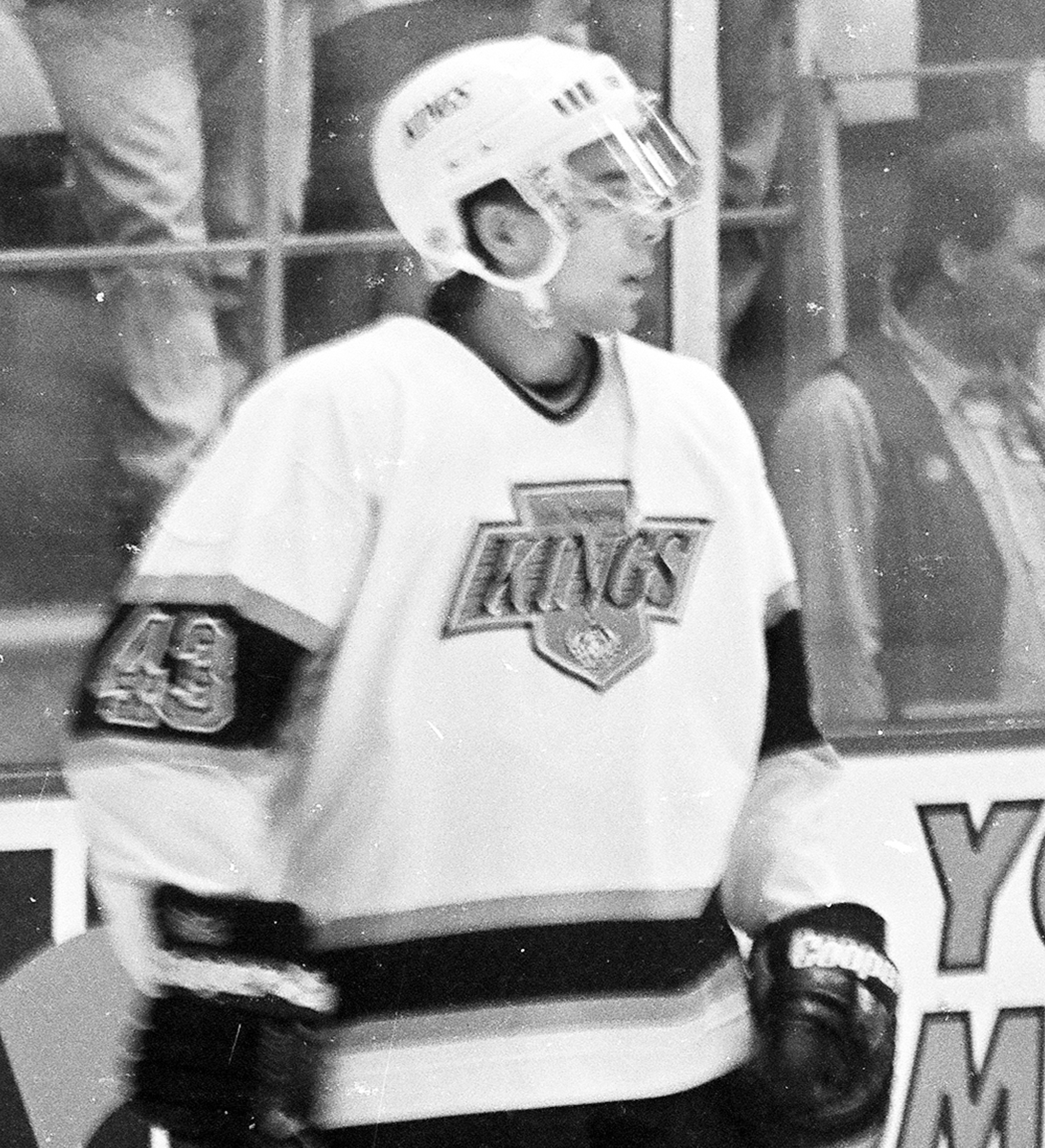 Vitali Yachmenev during his tenure with the Los Angeles Kings.